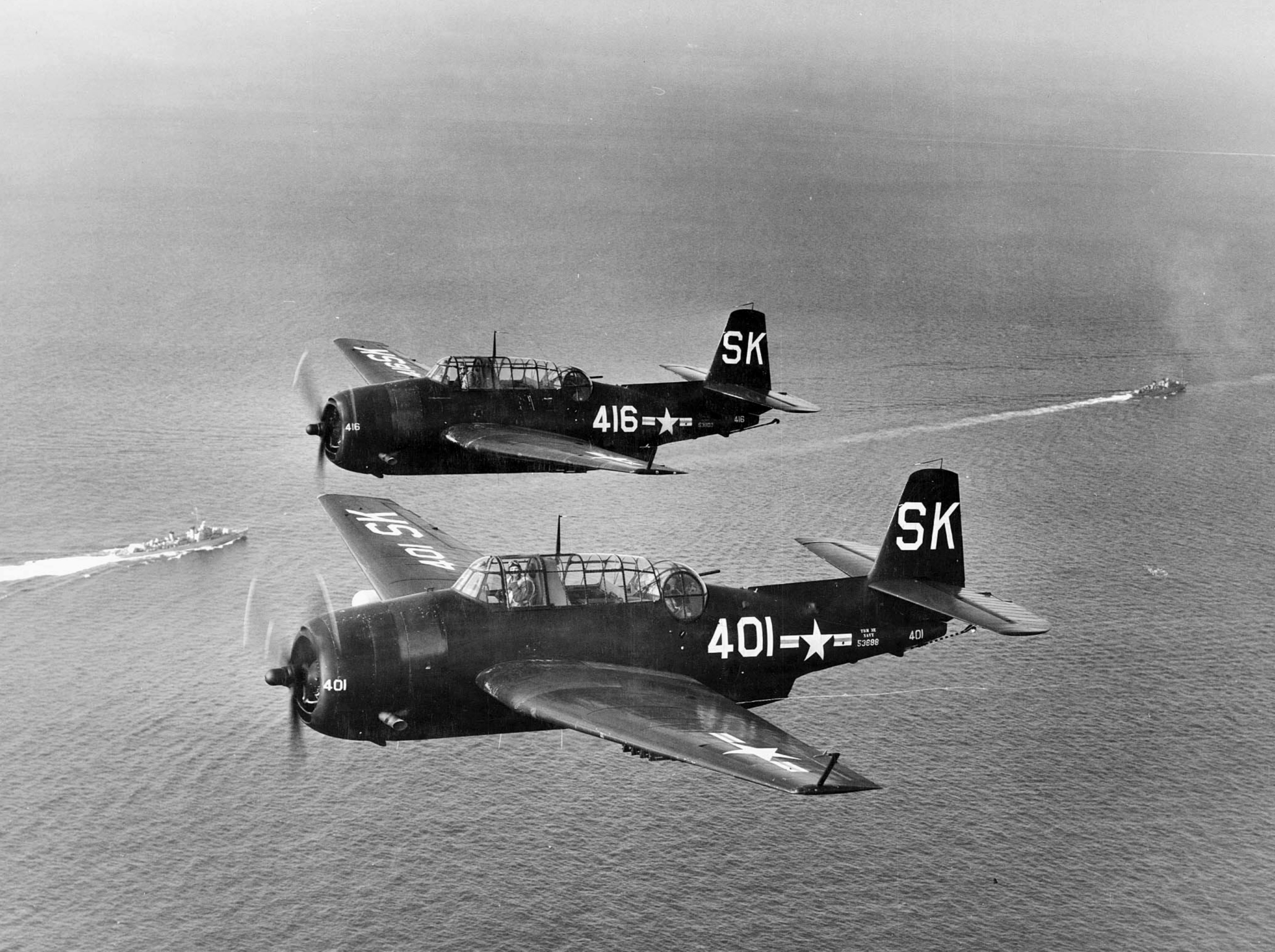 Two U.S. Navy Grumman TBM-3E Avengers (BuNo 53688, 53900) from Anti-Submarine Squadron VS-25 in flight over ships.